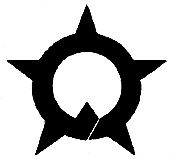 Ono Fukui chapter